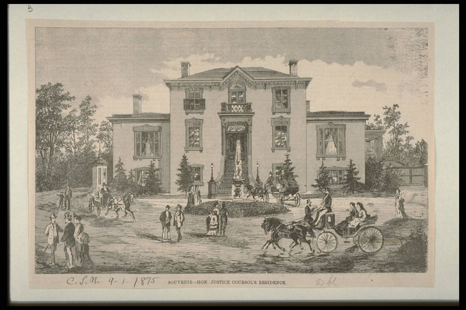 Manoir Souvenir, Montreal. Built 1830, for Frederic-Auguste Quesnel (1785-1866) on a park of 240 acres near Dorchester Boulevard and Rue Saint-Antoine. Named in memory of his wife who died in 1820. It was inherited by his adopted nephew Charles-Joseph Coursol (1819-1888).[1] Illustration published in Canadian Illustrated News, January 9, 1875.